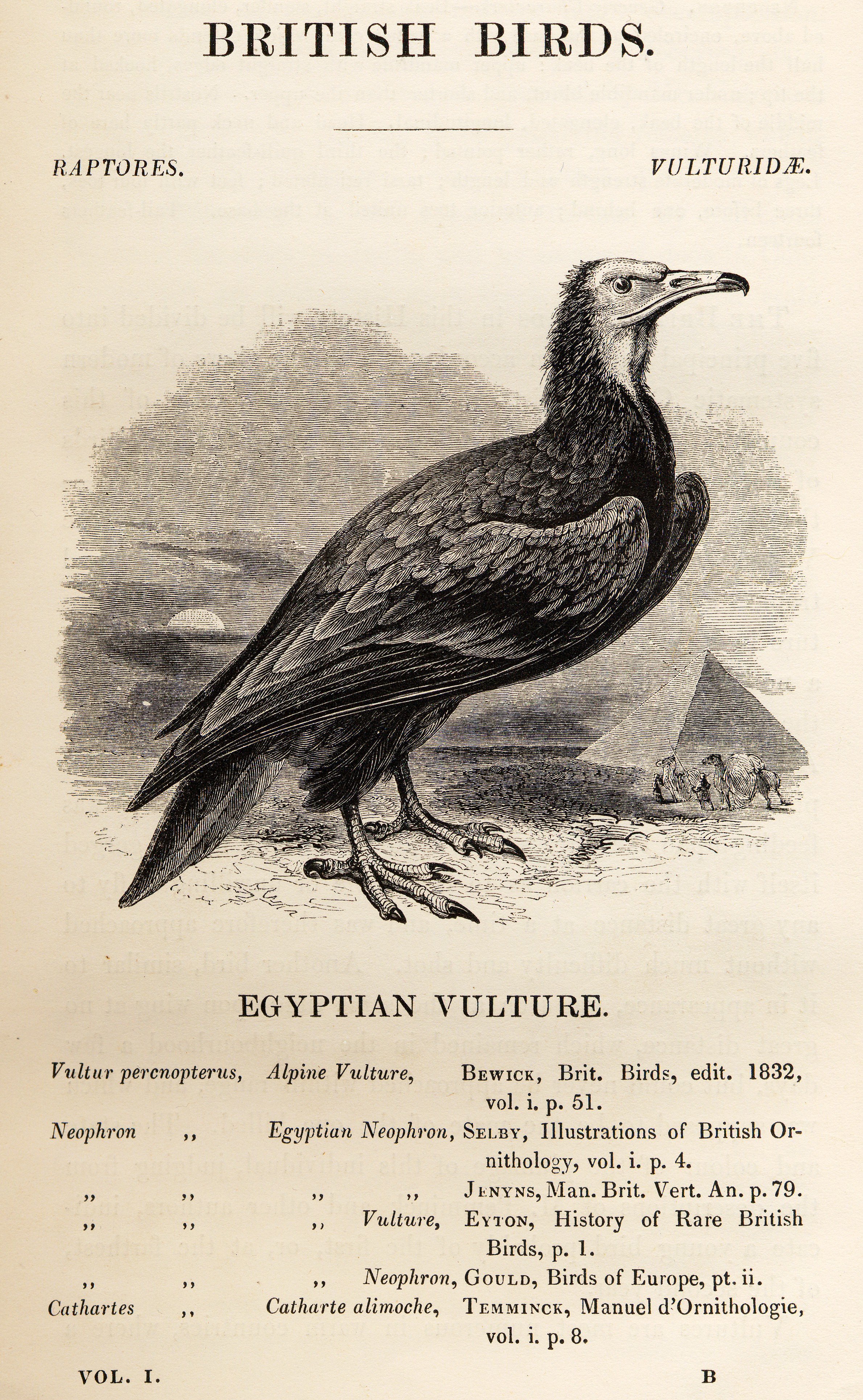 Wood engraving of Egyptian Vulture from William Yarrell's A History of British Birds, 1843. This is the first page of the main text. The background of the image shows camels and a pyramid. The scientific names and their authors are listed. Drawing directly onto wood block by Alexander Fussell. Engraving by John Thompson.